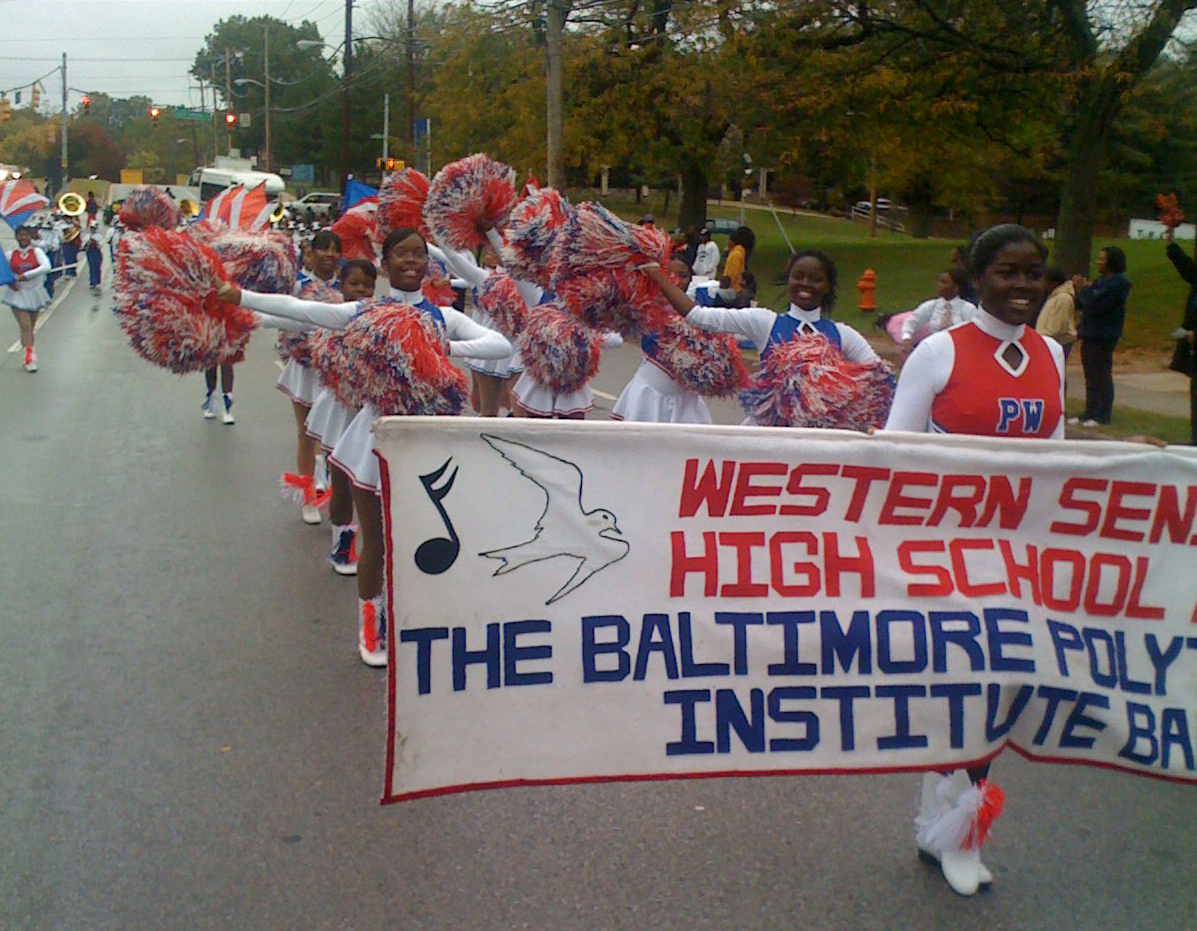 poly western marching band